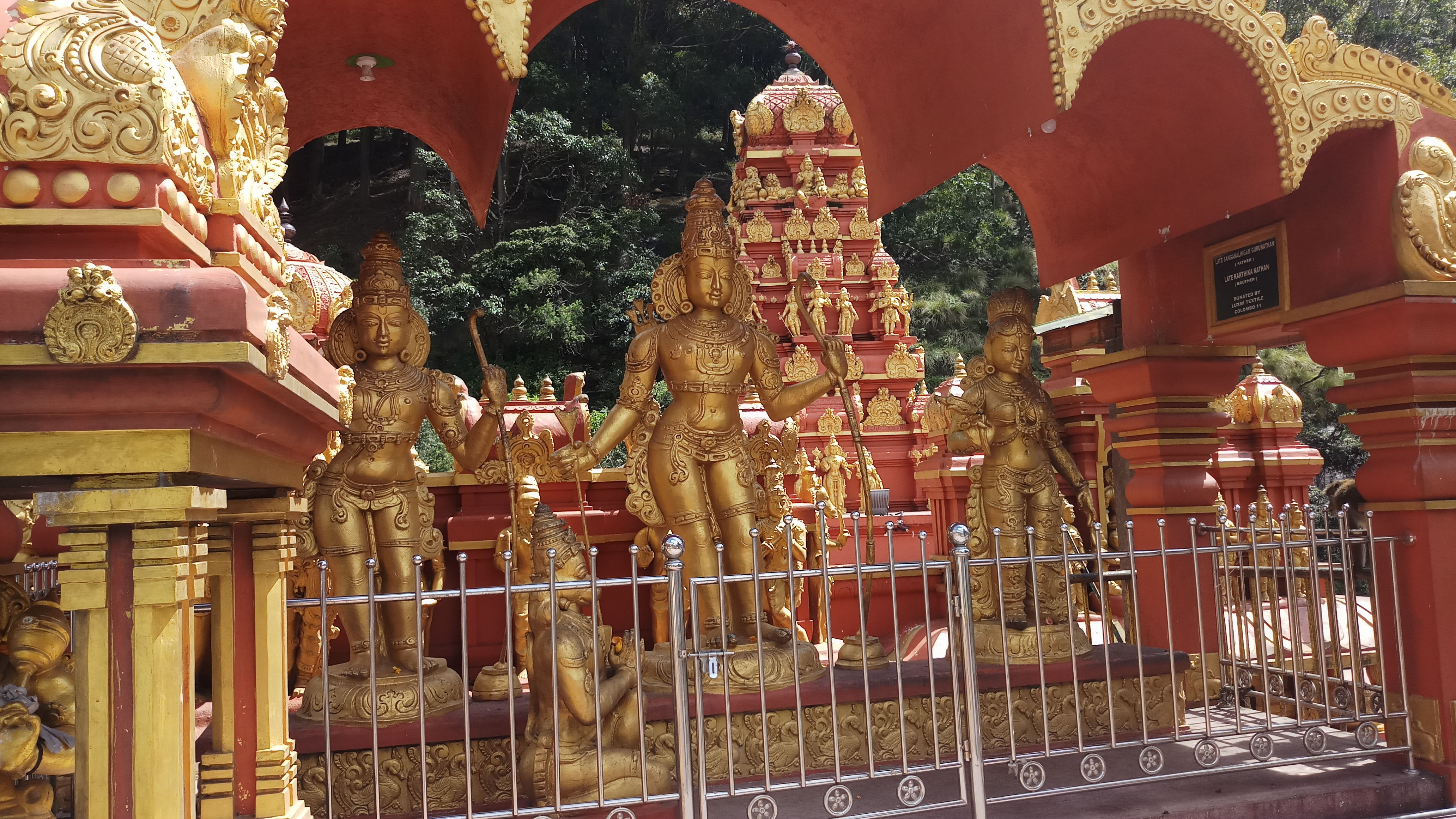 சீதையம்மன் கோயிலின் வெளித்தோற்றம், நுவரேலியா, இலங்கை